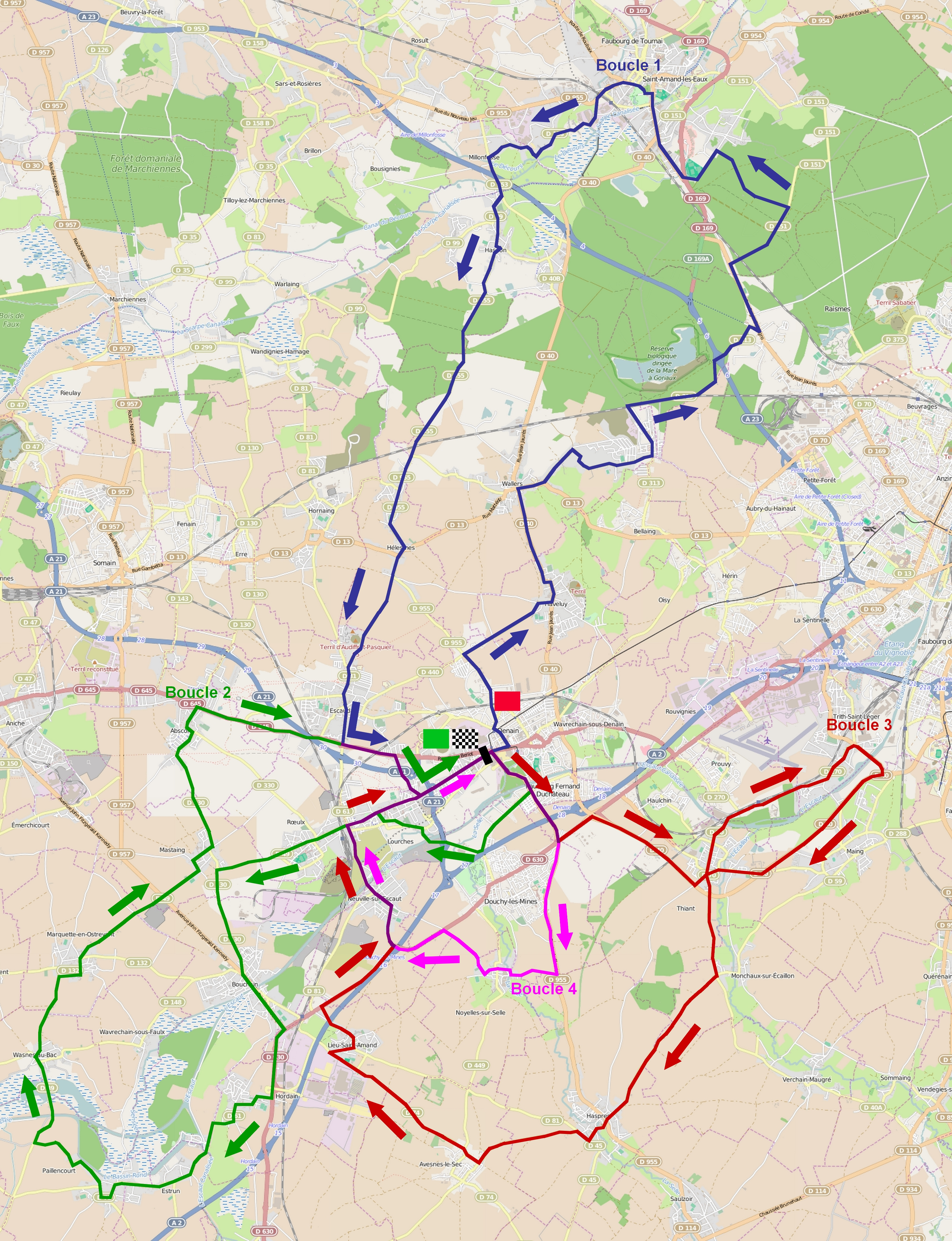 Parcours du Grand Prix de Denain 2012. This map may be incomplete, and may contain errors. Don't rely solely on it for navigation.